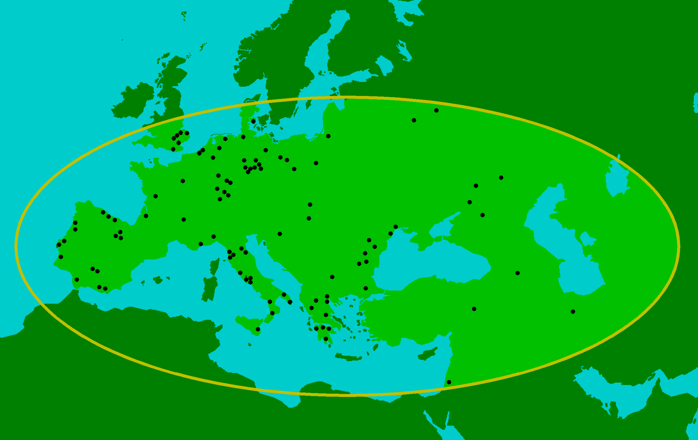 spreading area of the straight-tusked elephant (Elephas antiquus)